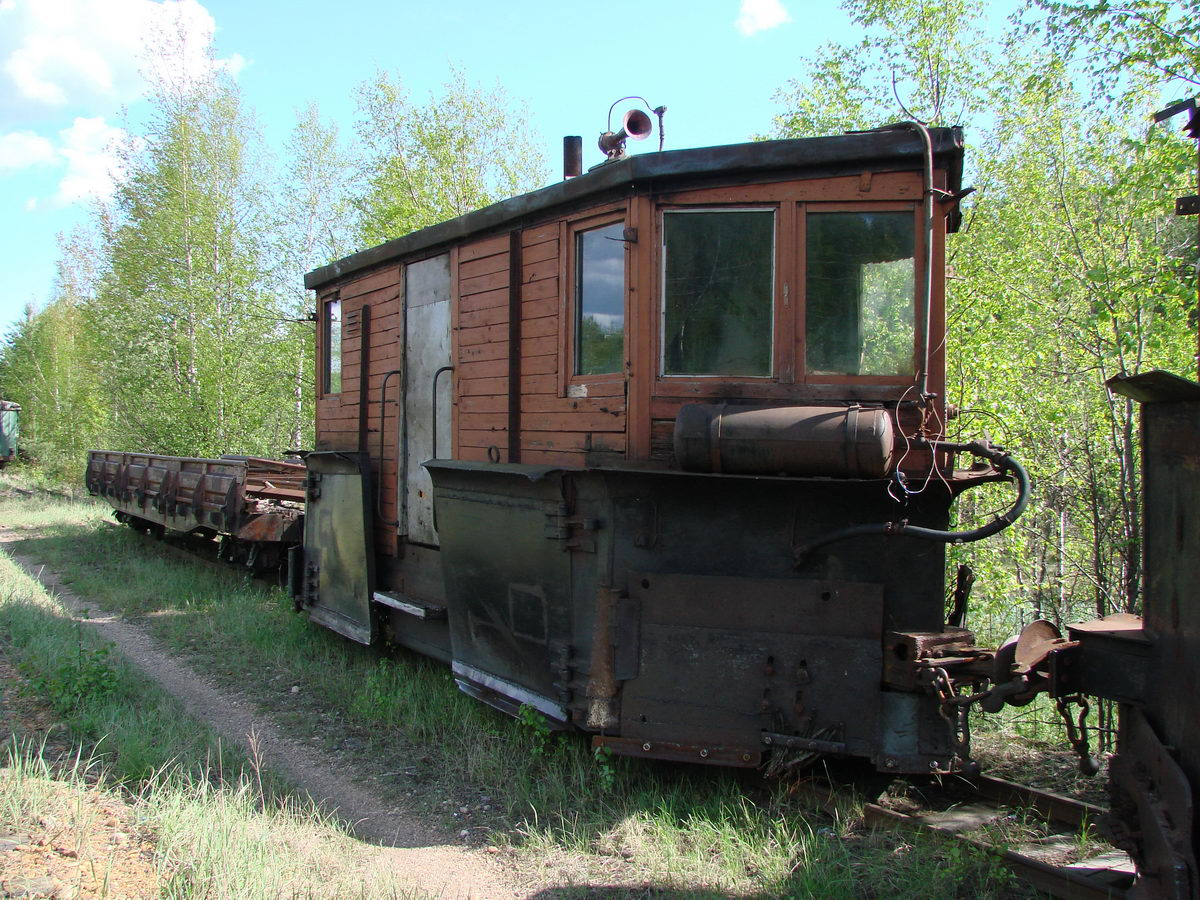 Narrow-gauge railway of Dymnogo peat enterprise